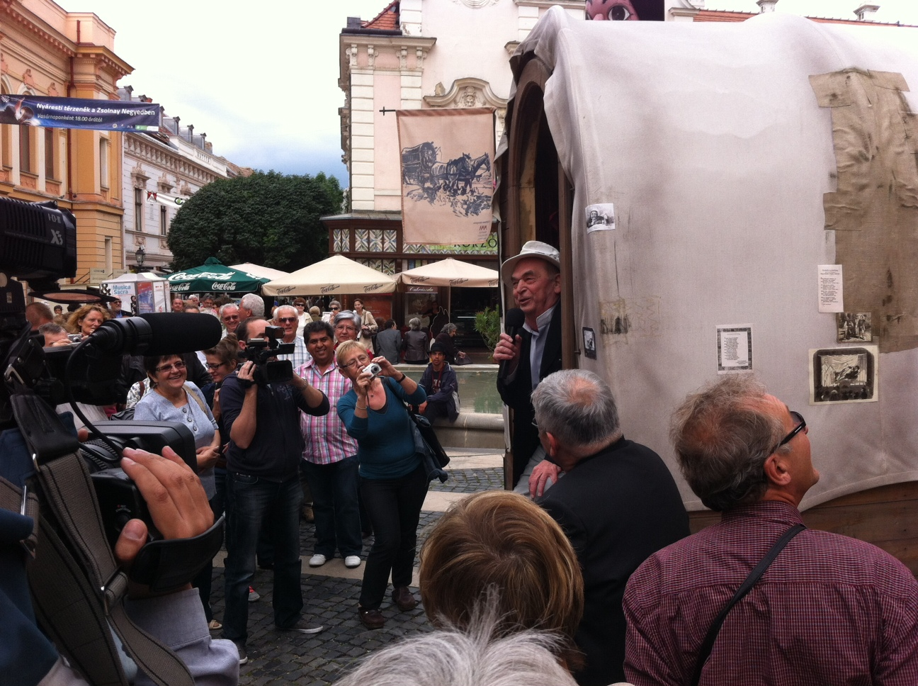 Bodrogi Gyula on Opening ceremony of POSZT 2013, Pécs, Hungary